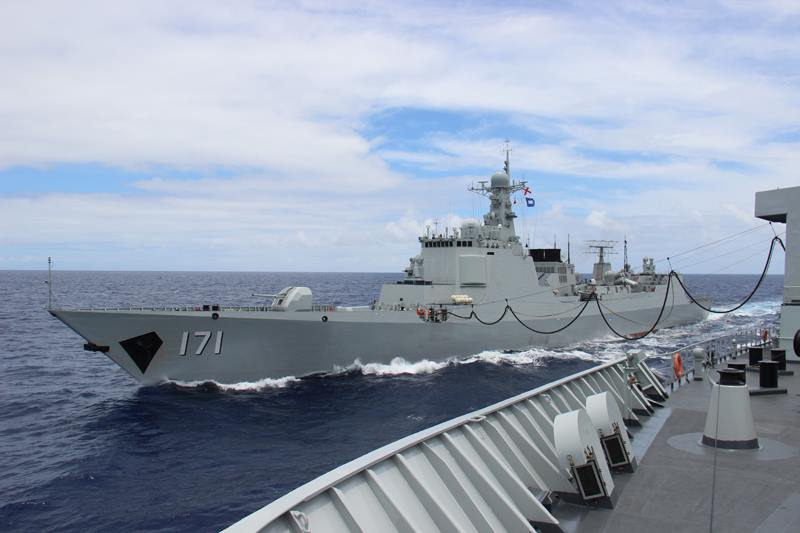 PLA(N) Qian Daohu and Haikou conducting RAS during RIMPAC 2014.